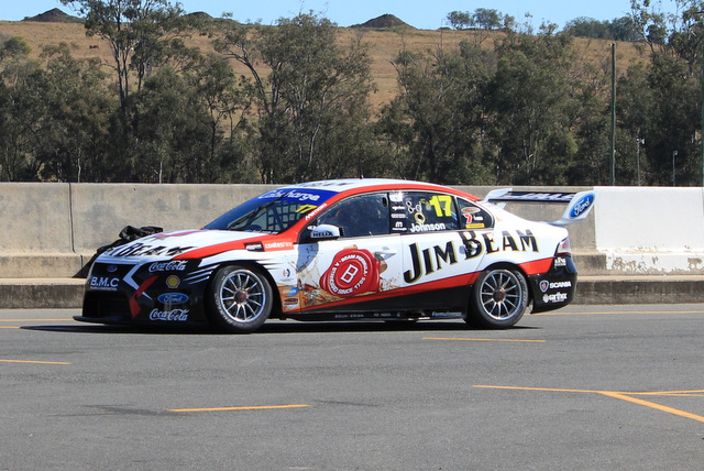 The Ford FG Falcon of Steven Johnson at the 2012 Coates Hire Ipswich 300, at Queensland Raceway, August 5, 2012.